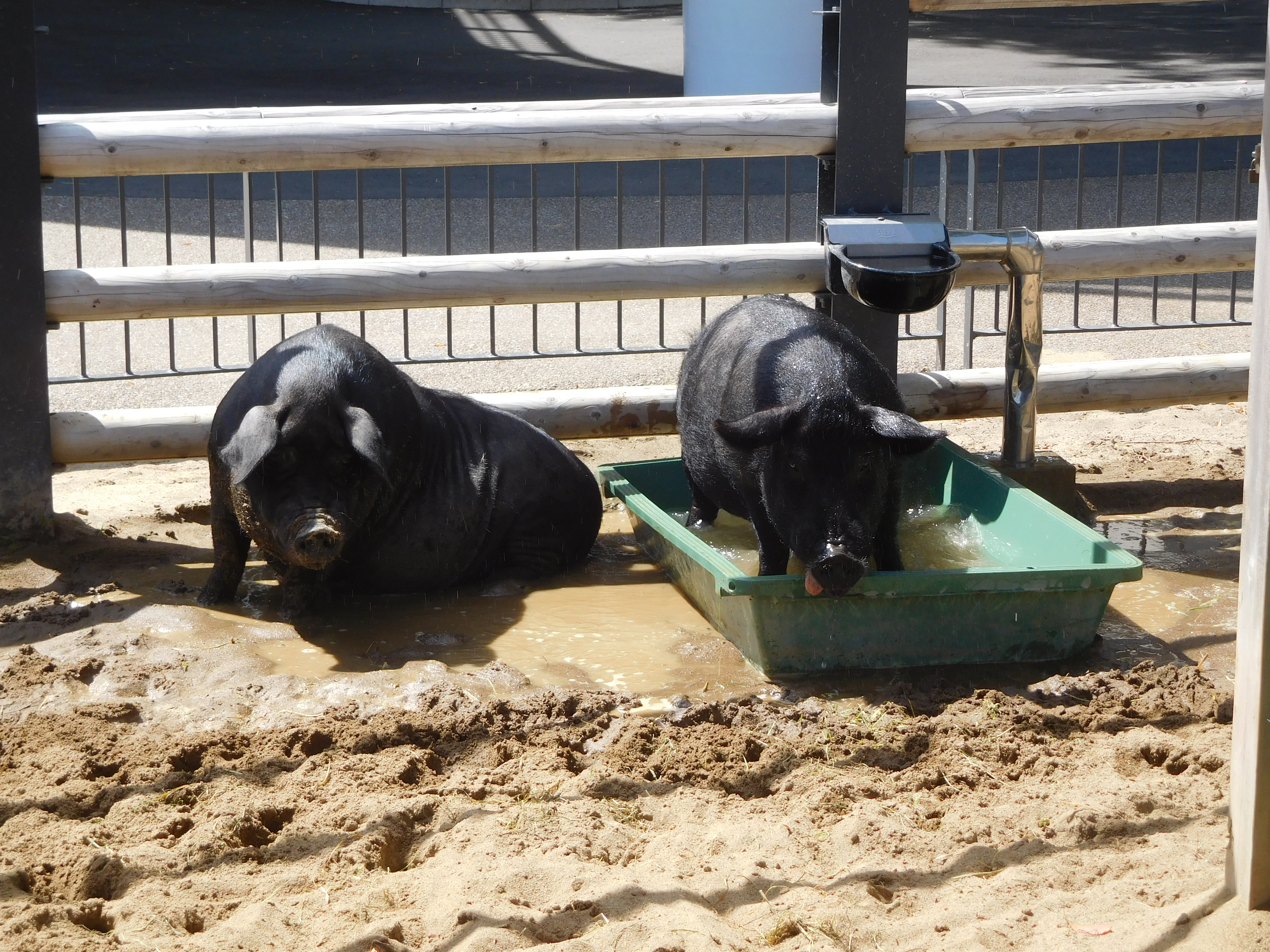 Okinawan pig "agu" at Ueno Zoo in Tokyo, Japan. Because it is high temperature, they are bathing.